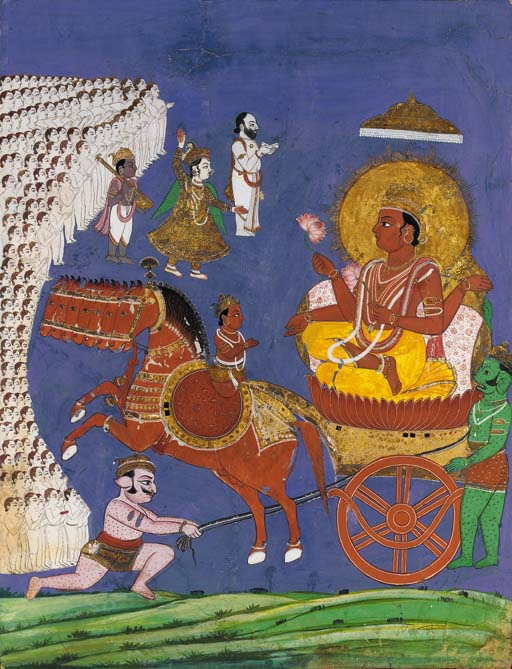 Surya receives worship from the multitudes; Tanjore School miniature painting, 1800's "A Painting of Surya. India, Tanjore School, 19th Century. The nimbated Sun God depicted upon his chariot surrounded by attendants with smaller figures at left in obeisance."